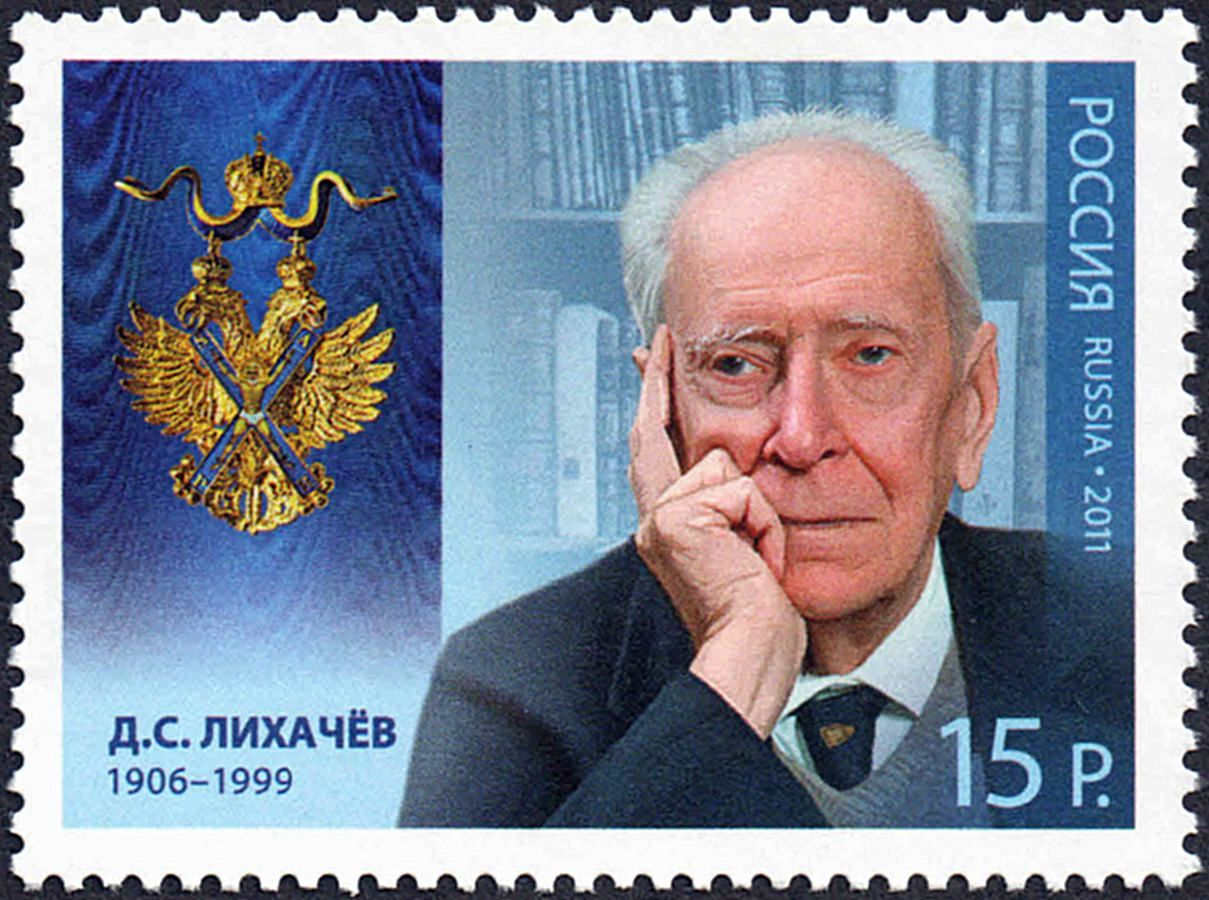 Recipients of the Order of St. Andrew the Apostle the First-Called (the ongoing series, issue I). Dmitry Likhachov[1] (1906–1999), an outstanding Soviet Russian philologist, art historian, literary man and public figure. There depicted the badge of the Order of St. Andrew on the left. The stamp of Russia, 15.00 Rubles, 1 September 2011, PTC Marka Catalogue No 1509, Michel No 1741. Coated paper. Offset printing, varnish coating. Perforation: comb 12×11½. Size of the stamp: 50×37 mm. Print run: 440,000.